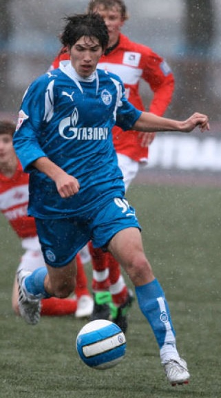 Roland Gigolaev as a player of FC Zenit St. Petersburg Youth